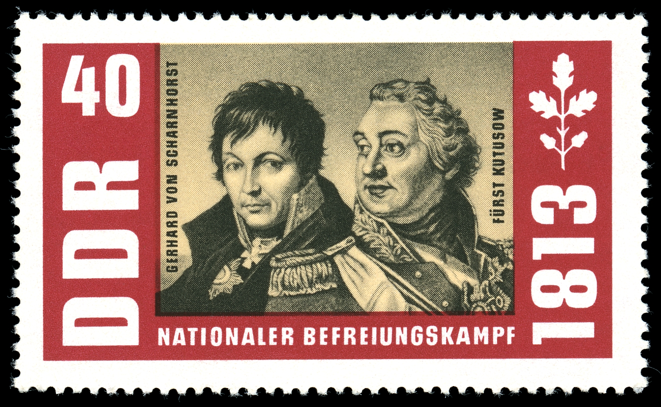 Ausgabepreis: Pfennig First Day of Issue / Erstausgabetag: Auflage: Entwurf: Druckverfahren: Michel-Katalog-Nr: Ländercode-MiNr: Licensing This file is most likely NOT in the public domain. It has been marked for review, and will be deleted in due course if the review does not find it to be in the public domain.This file was previously considered to be in the public domain as a German stamp; it is possible that it is in the public domain for other reasons, in which case a new rationale will be applied as part of the review process. See below for the previous rationale. Previous public domain rationale, no longer applicable This stamp is in the public domain in Germany because it was released by the postal administration of the German Democratic Republic or the Soviet occupation zone (Deutschen Post der DDR) whose legal successor is the Federal Republic of Germany. Thus it is an official work according to German copyright law (§ 5 Abs. 1 UrhG).